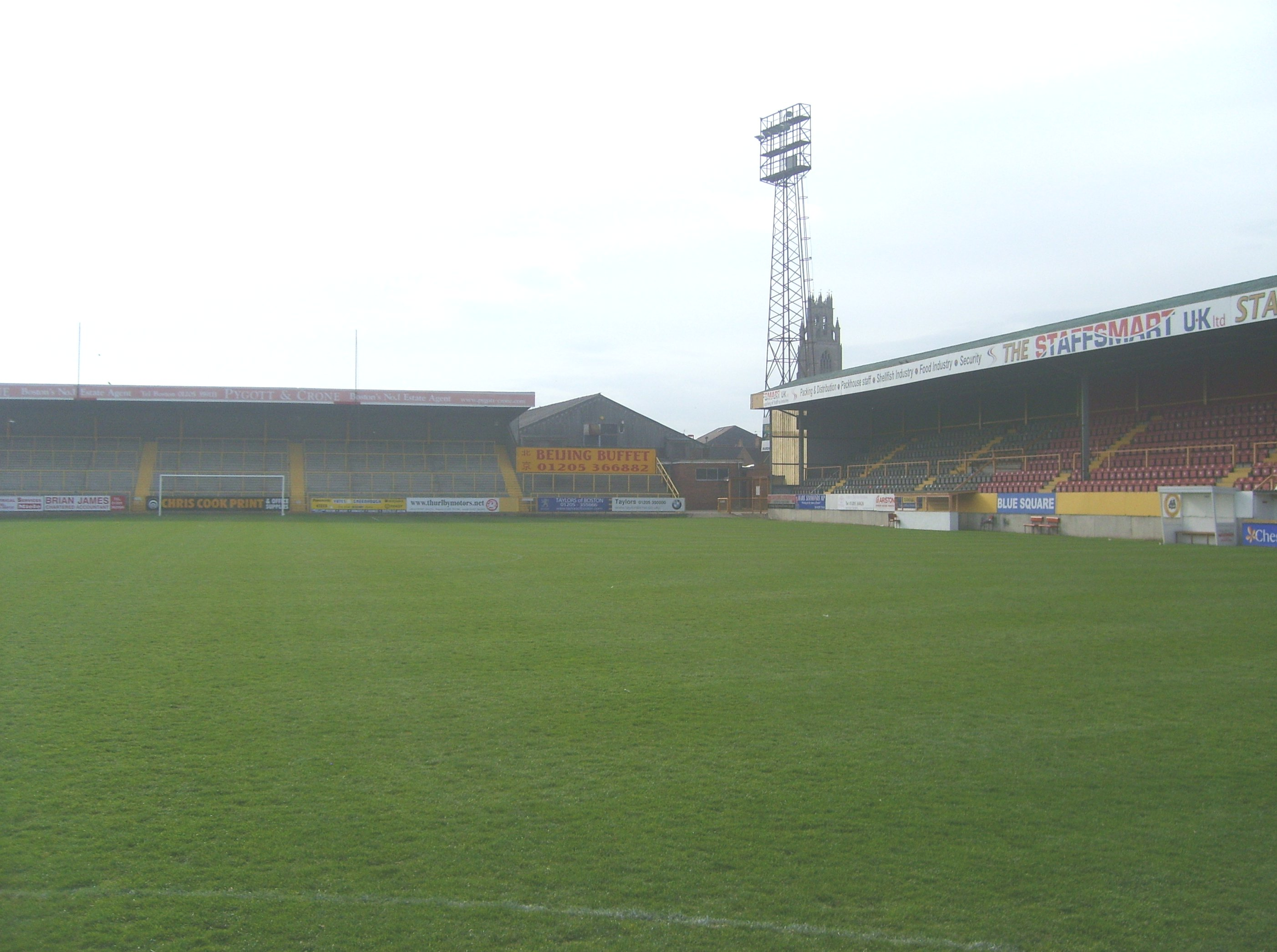 A picture of the Staffsmart Stadium, York Street, taken from the pitch.